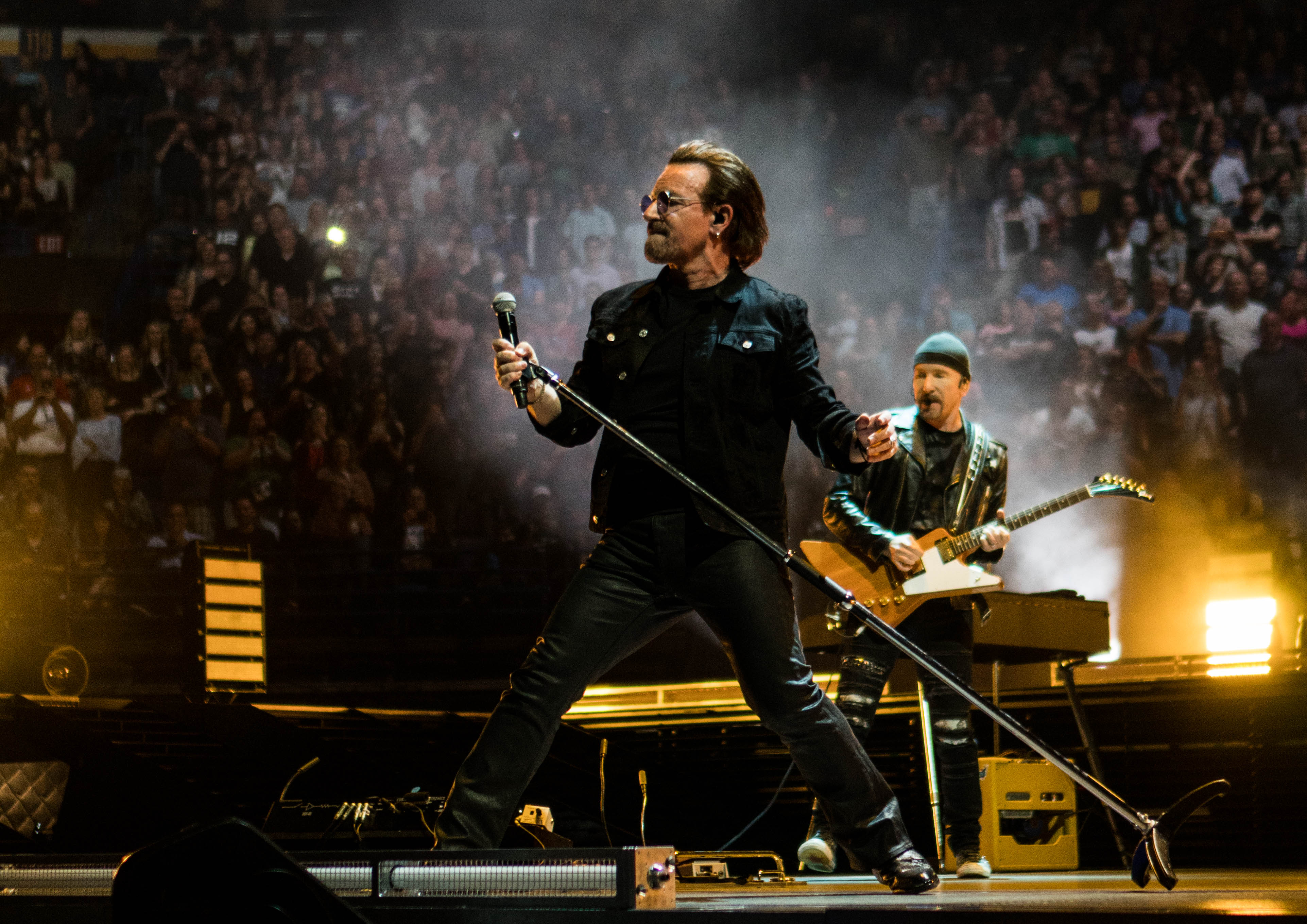 U2 members Bono and the Edge during a concert on the Experience + Innocence Tour at Scottrade Center in St. Louis, Missouri on May 4, 2018